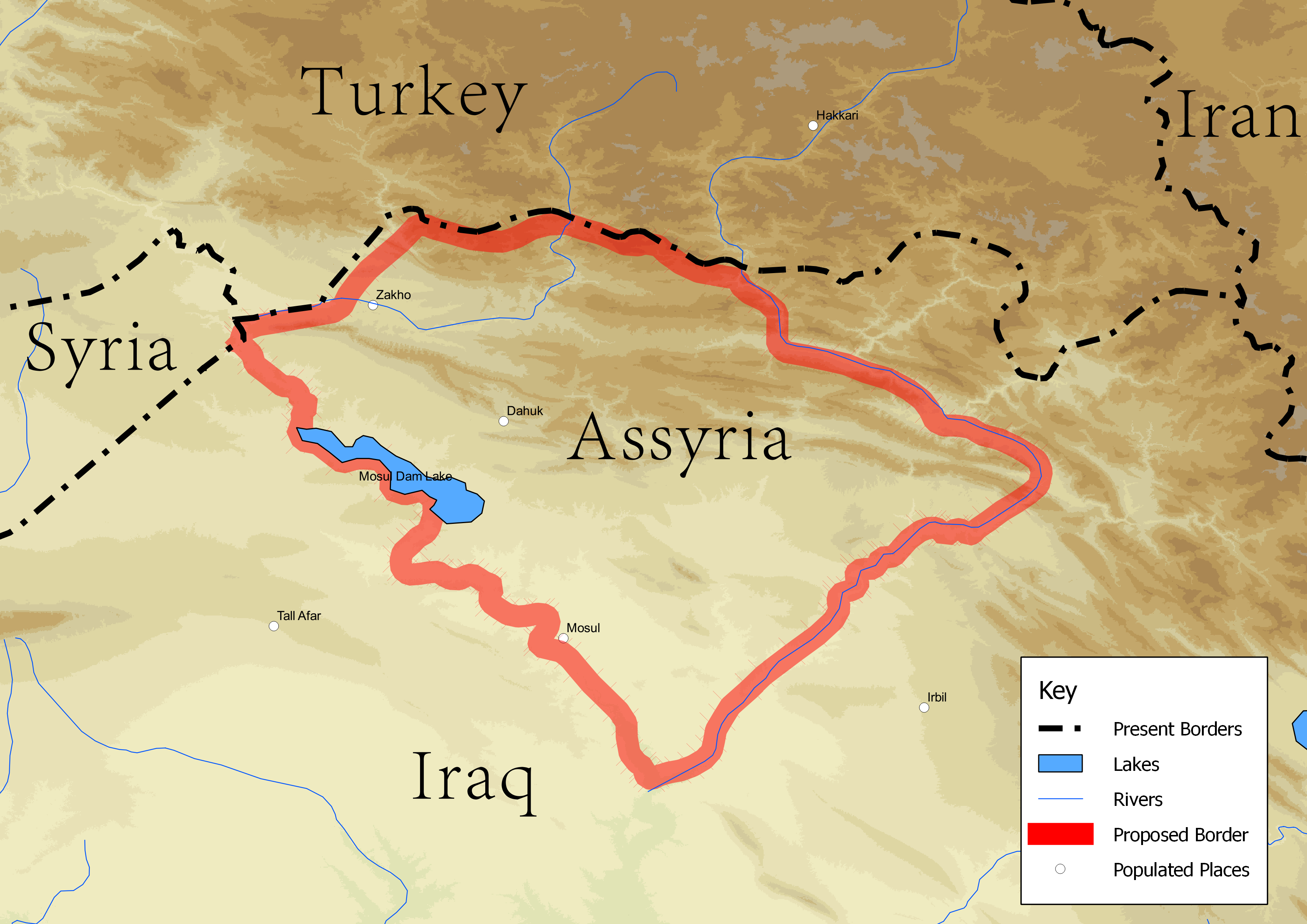 Assyrian borders, as proposed during World War 1 Sources: Topography: SRTM90 Proposed Border: File:Assyrian_state_proposed_during_World_War_I.jpg Present Borders: Rivers: Towns: Lakes: Rendering: QGIS 2.0.1 (